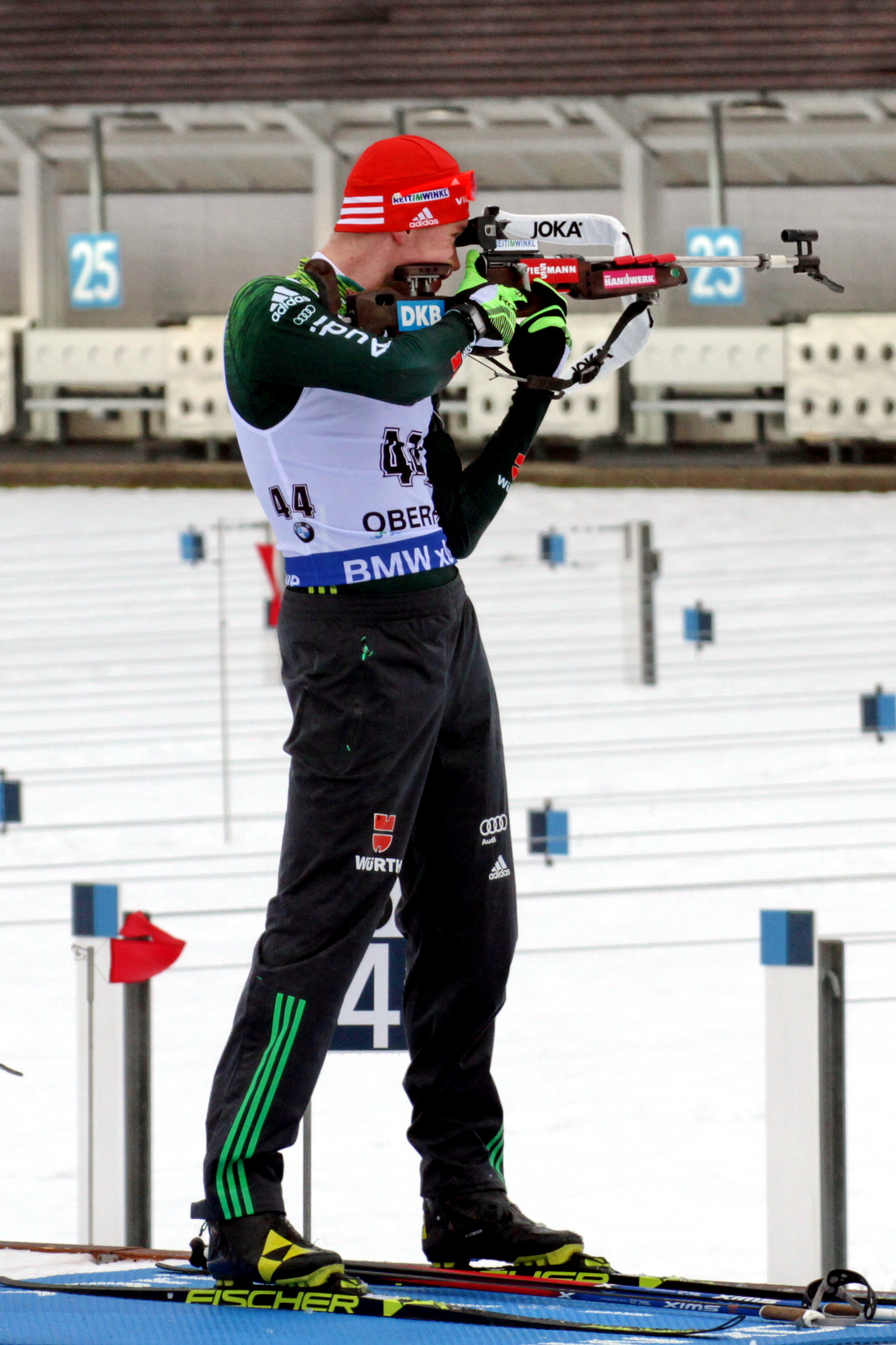 2018 Oberhof Biathlon World Cup - Sprint Men